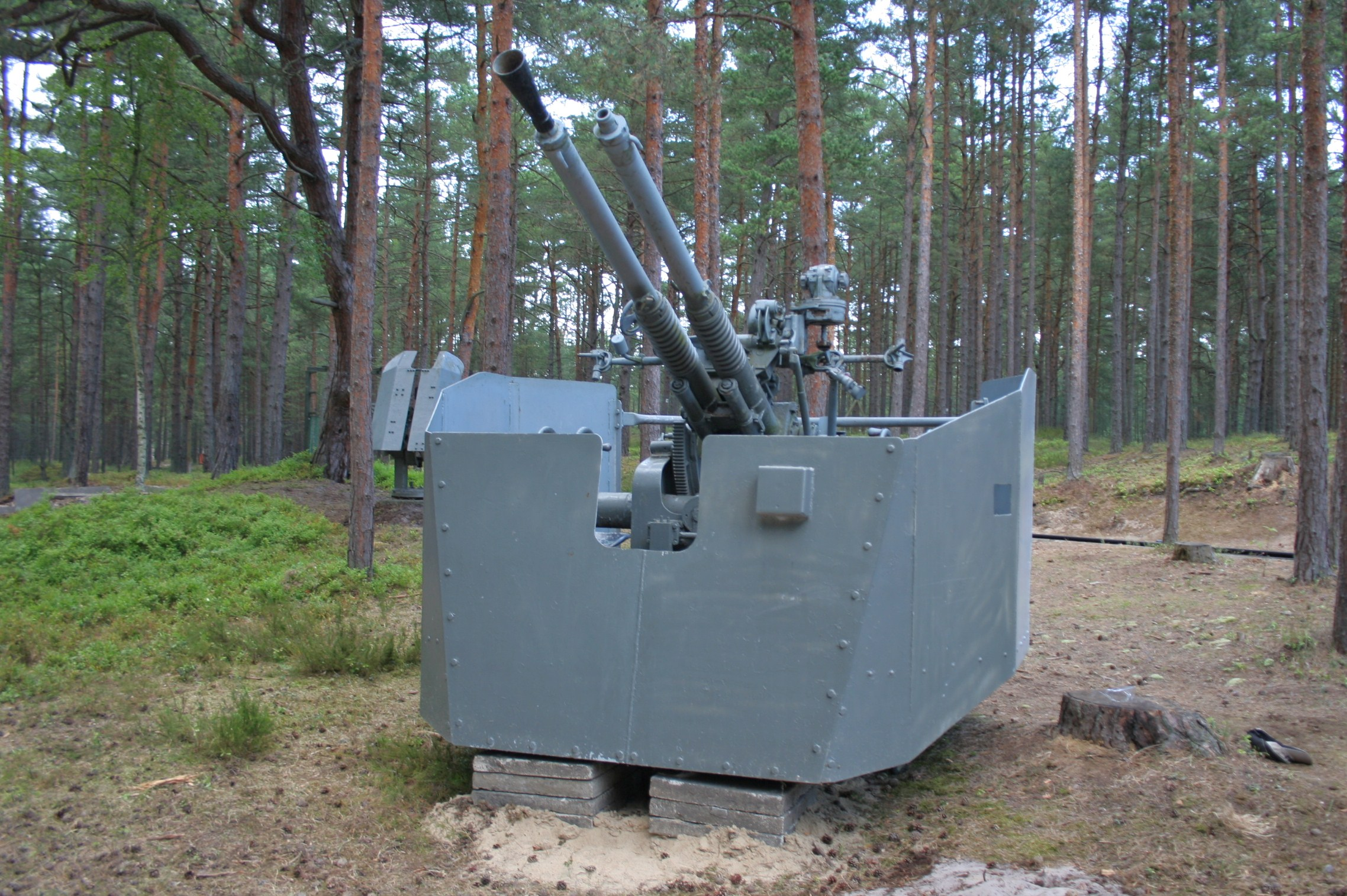 Outside exhibition in Museum of Coastal Defence.